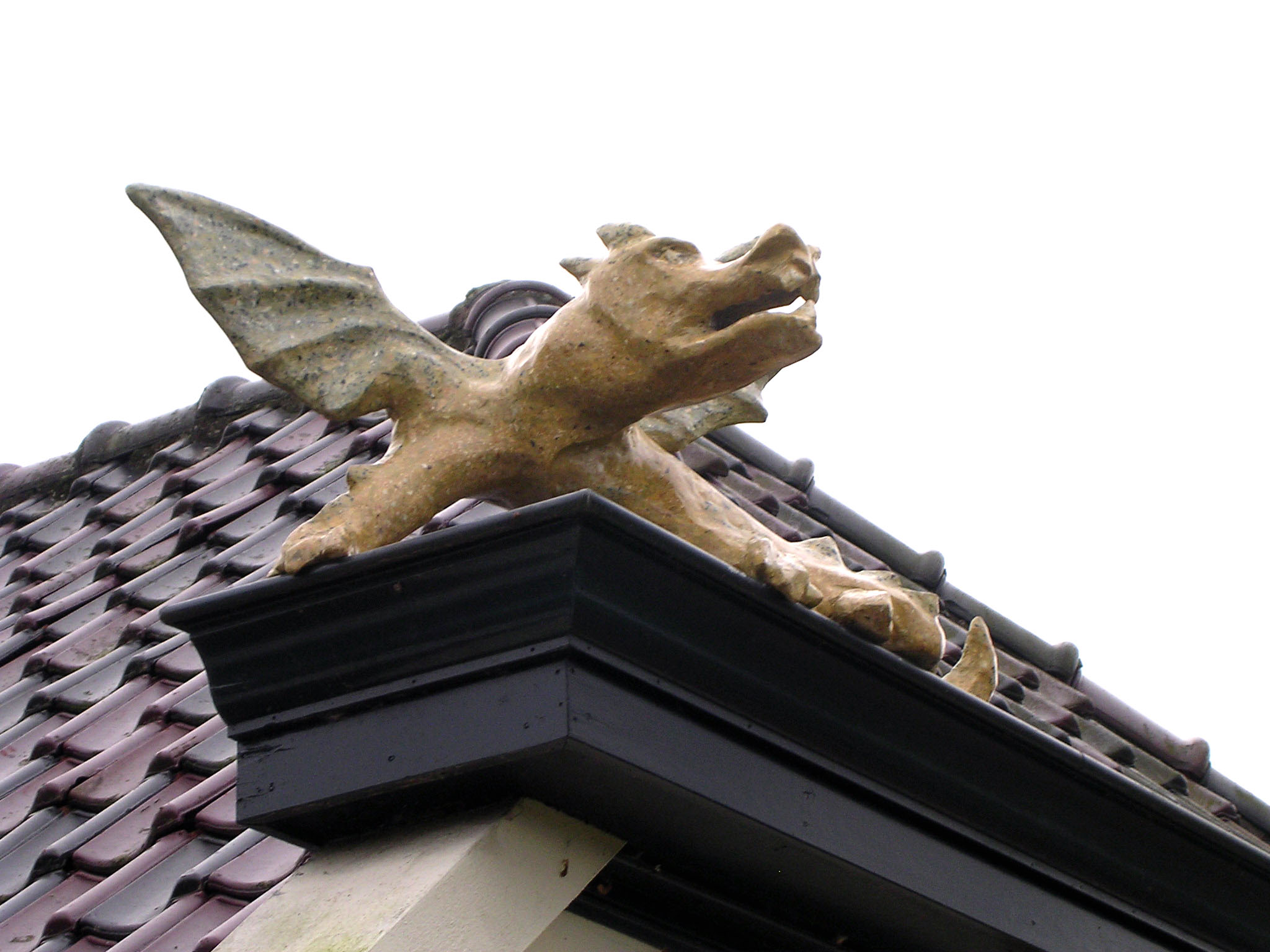 A dragon-gutterghost looks out over the village of Hurwenen